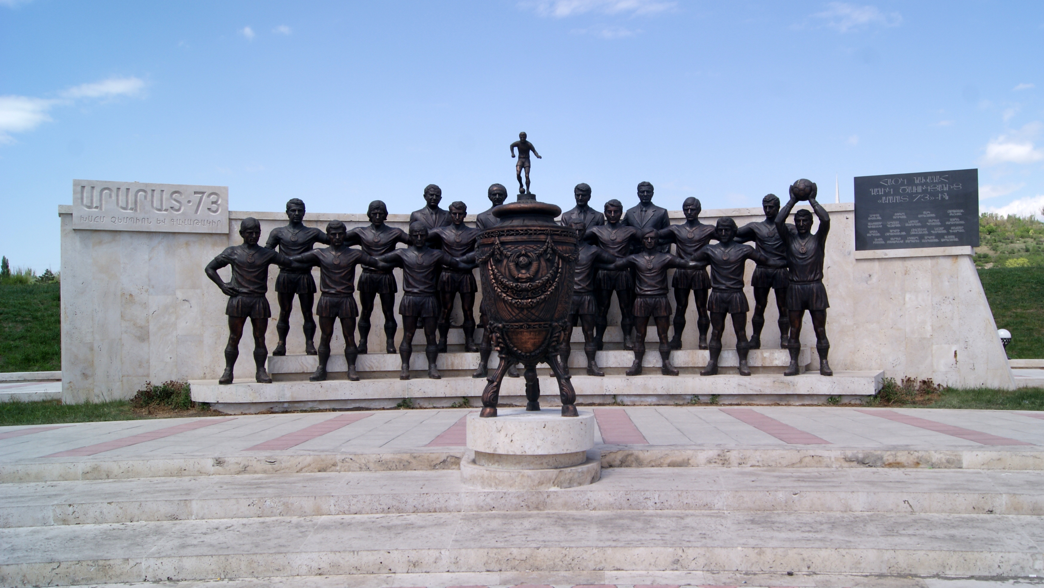 Ararat-73 team sculpture in Yerevan